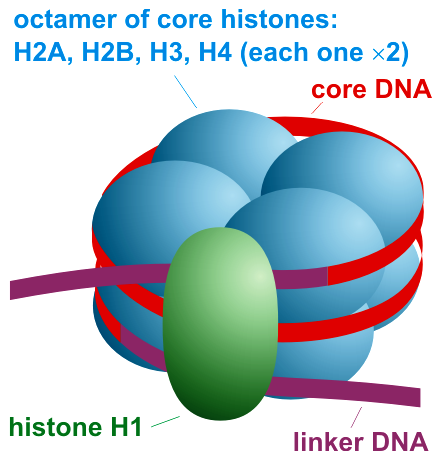 Nucleosome organization schema.